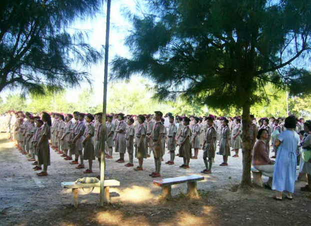 Thai pupils in Scouting dress gathering at Na Wa High School, Nakhon Phanom province (Isan)